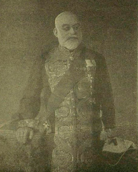 Russian political figure Nikolai Troinitsky (1842-1913). The picture from the reference book about Russian Senat published in 1912.